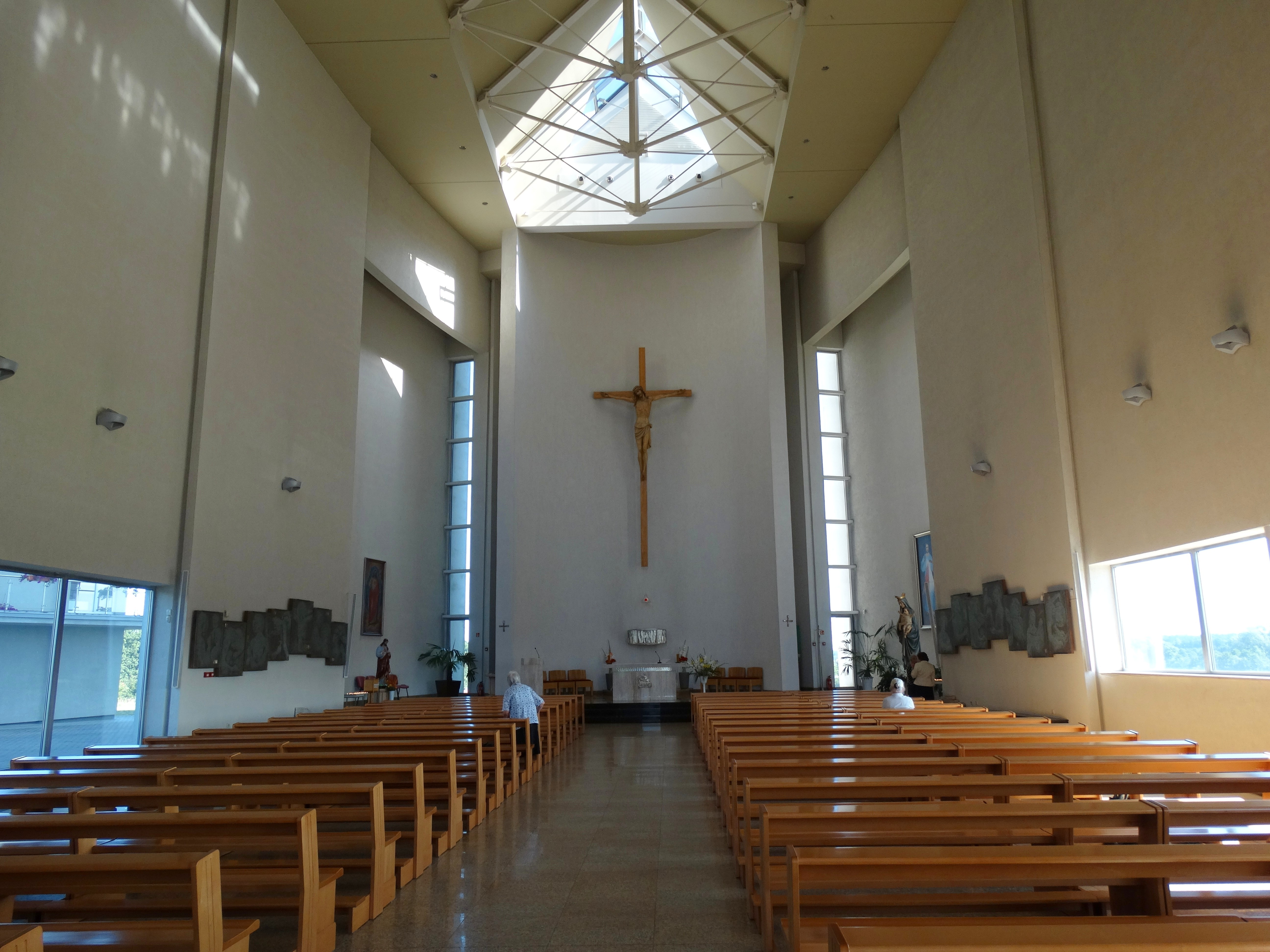 Catholic Church, interior, Pabradė, Švenčionys District, Lithuania